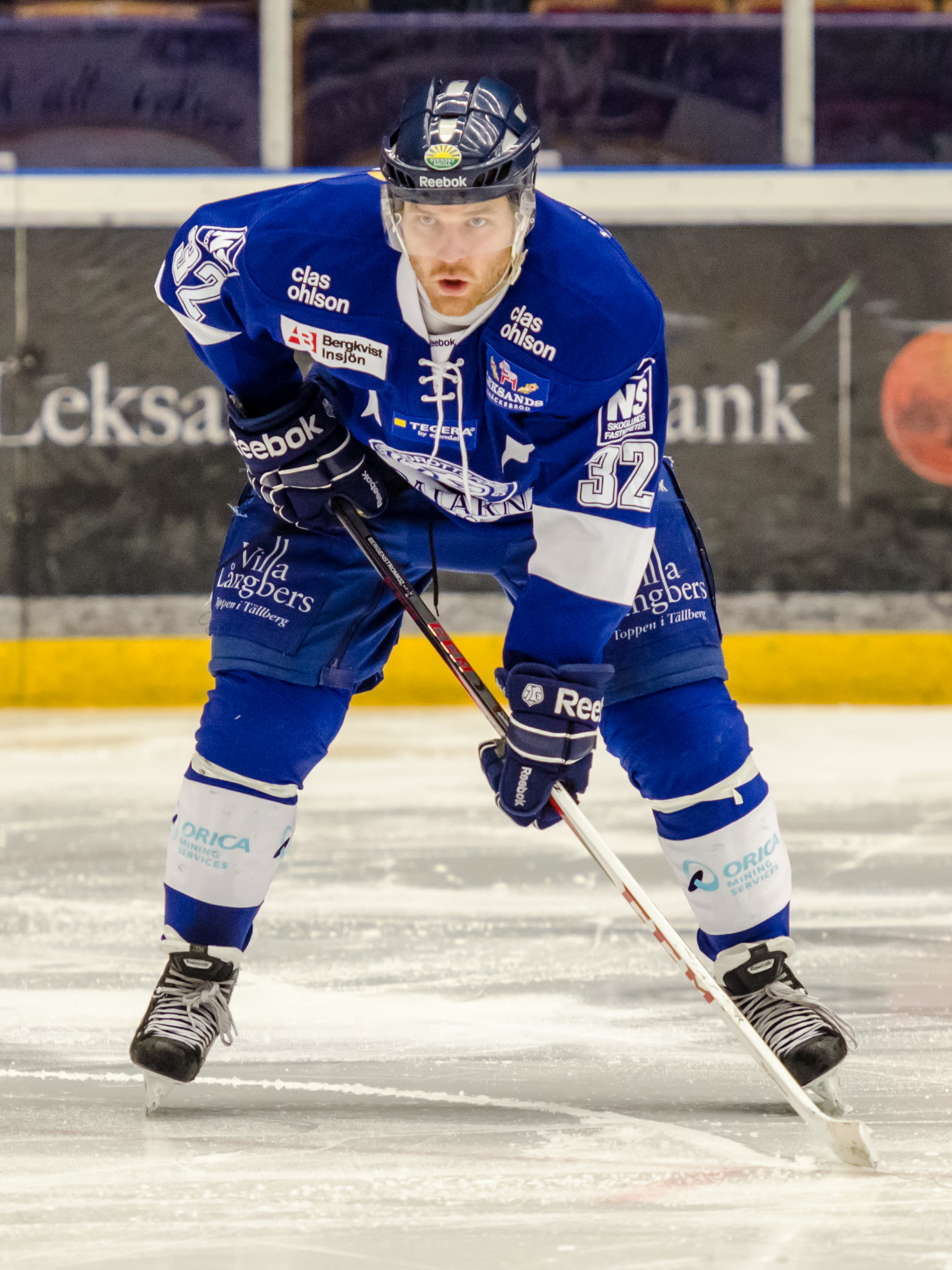 Jens Bergenström playing for Leksands IF in Hockeyallsvenskan (Swedish second league) against Mora IK 2012-12-29.